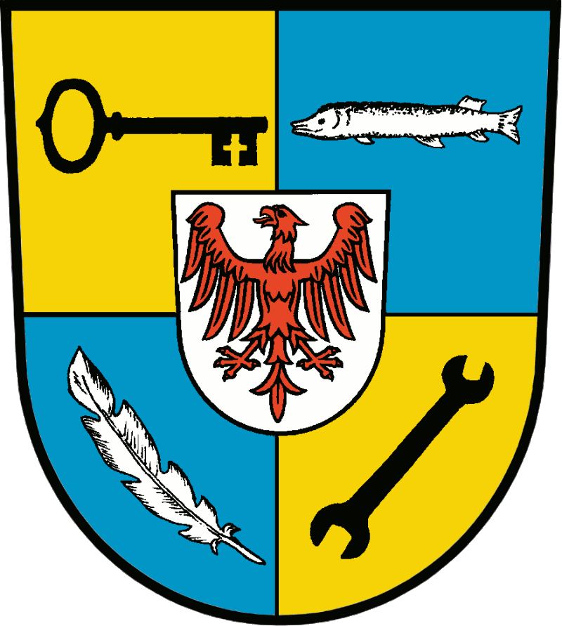 Coat of arms of Wriezen